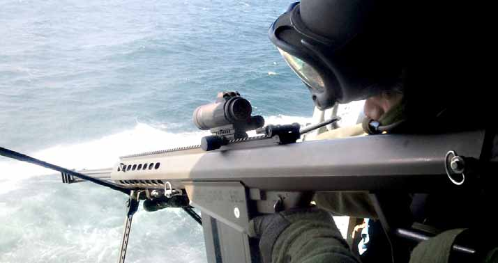 A precision marksman-aerial with the Pacific Tactical Law Enforcement Team, home based at Marine Corps Recruit Depot San Diego, prepares to engage a target in a required training exercise on his Barrett .50 sniper rifle.